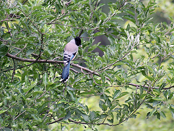 Black-headed Jay Garrulus lanceolatus at 8000 ft. in KulluDistrict of Himachal Pradesh, India.